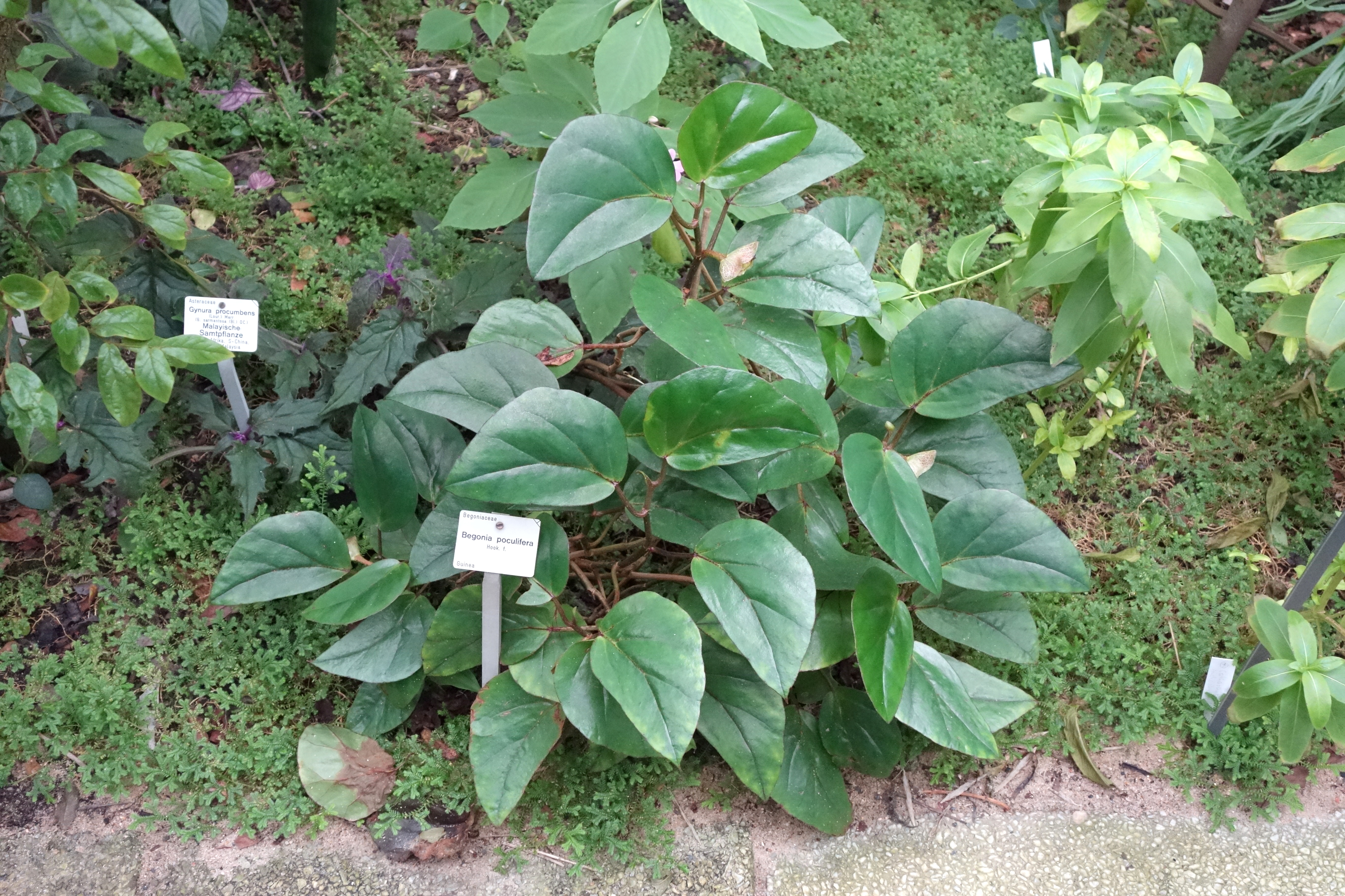 Botanical specimen in the Botanischer Garten, Dresden, Germany.